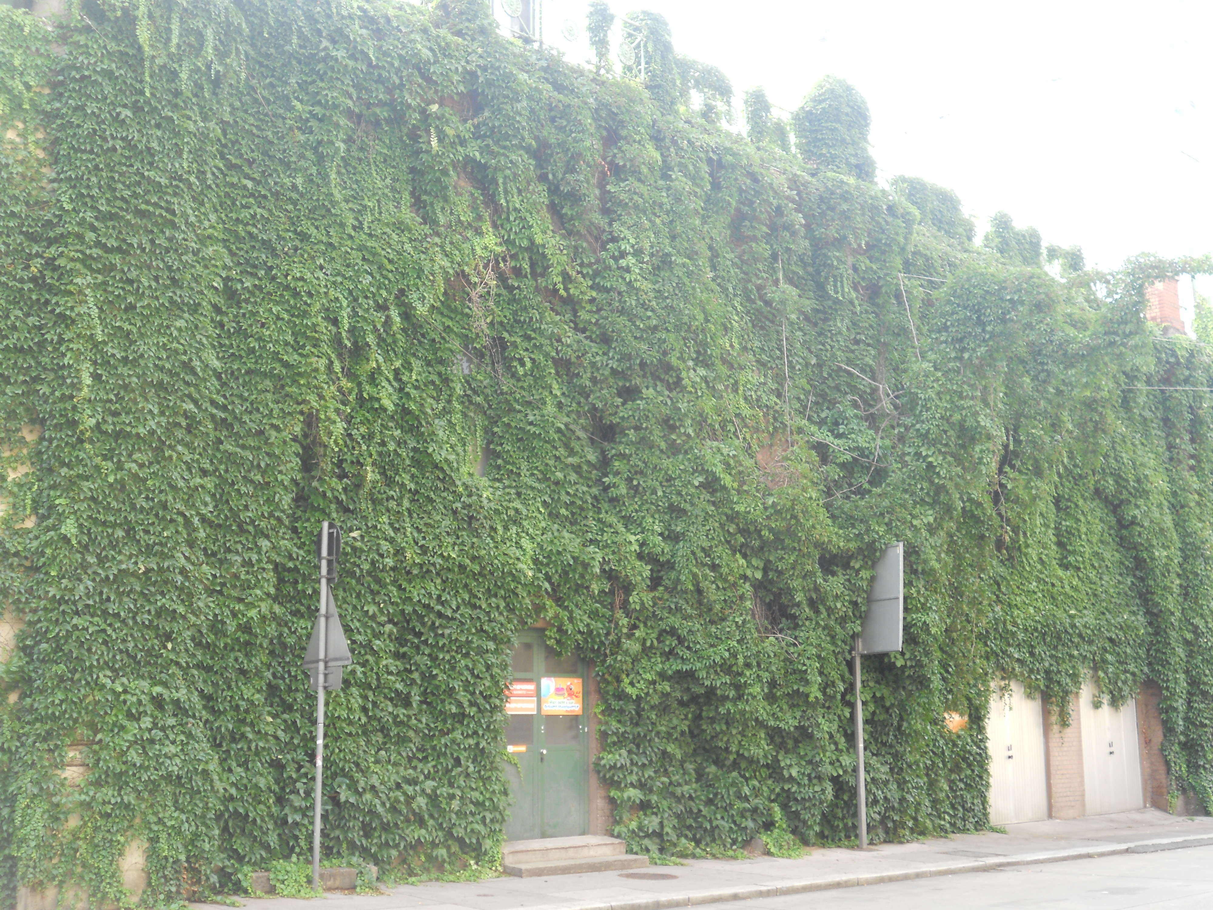 Stadtbahnbögen am Döblinger Gürtel in Wien